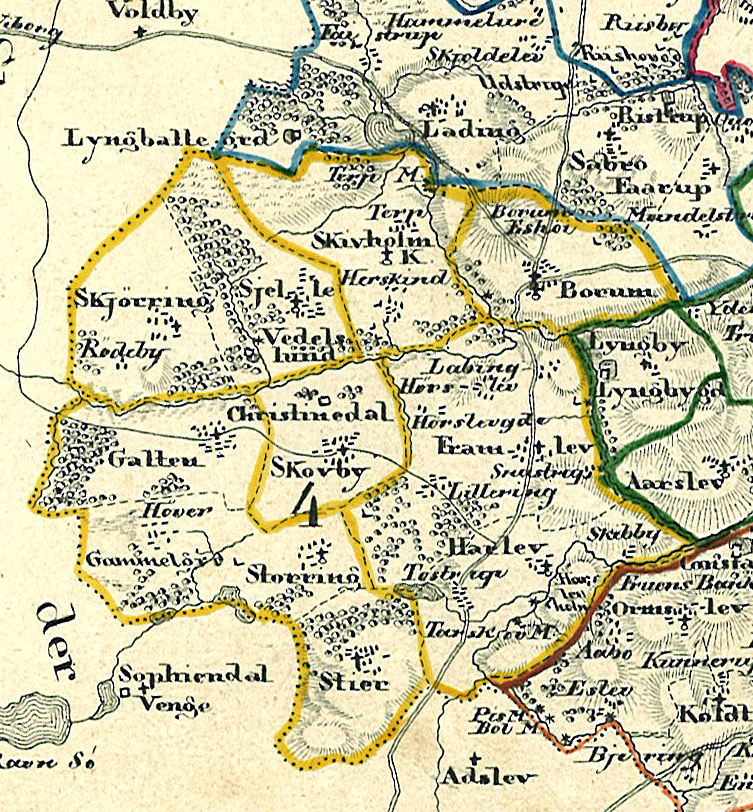 Framlev Herred, Århus Amt 1826, Denmark.